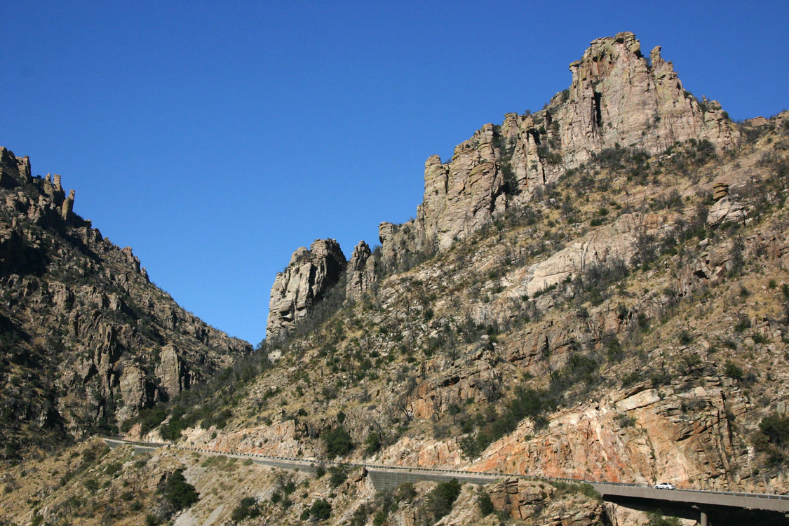 View of the Catalina Highway on the way to Summerhaven from Tucson, Arizona.